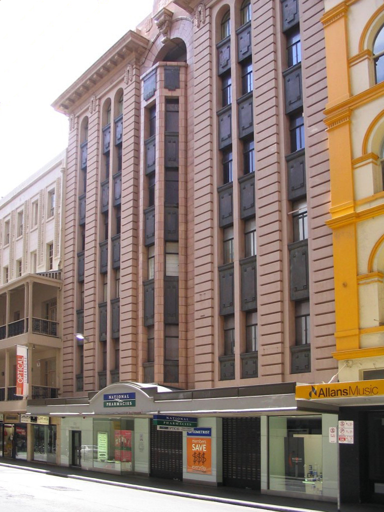 Claridge House, Gawler Place, Adelaide, Winter 2008.